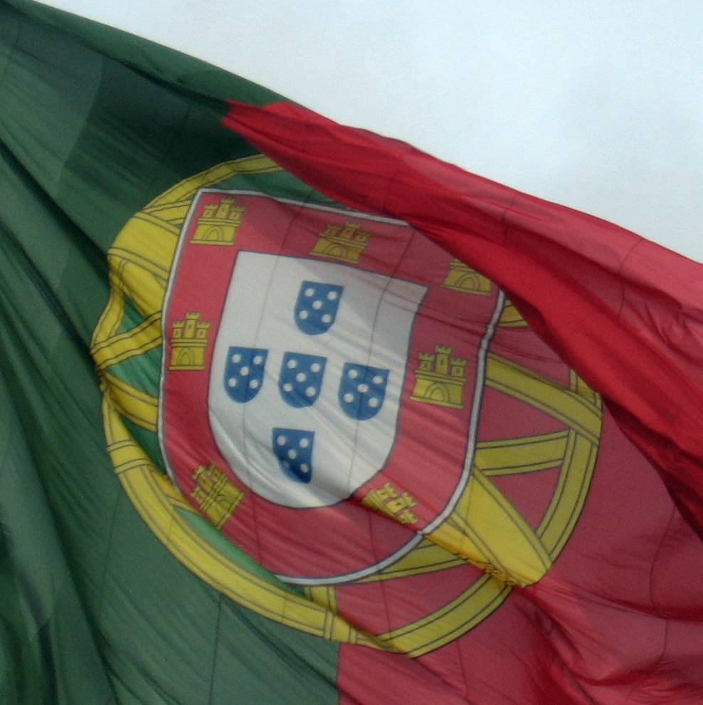 The five blue shields represents the five moor kings defeated by the first King of Portugal, D. Afonso Henriques, at the Battle of Ourique. The dots inside the blue shields represent the five wounds of Christ when crucified. The seven castles represents the fortified cities D. Afonso Henriques conquered from the moors. The globe represents the world discovered by the Portuguese navigators in the fifteen and sixteenth centuries. The green strip is meant to symbolize the hope in the future and the red the blood of the nation’s heroes. (taken from